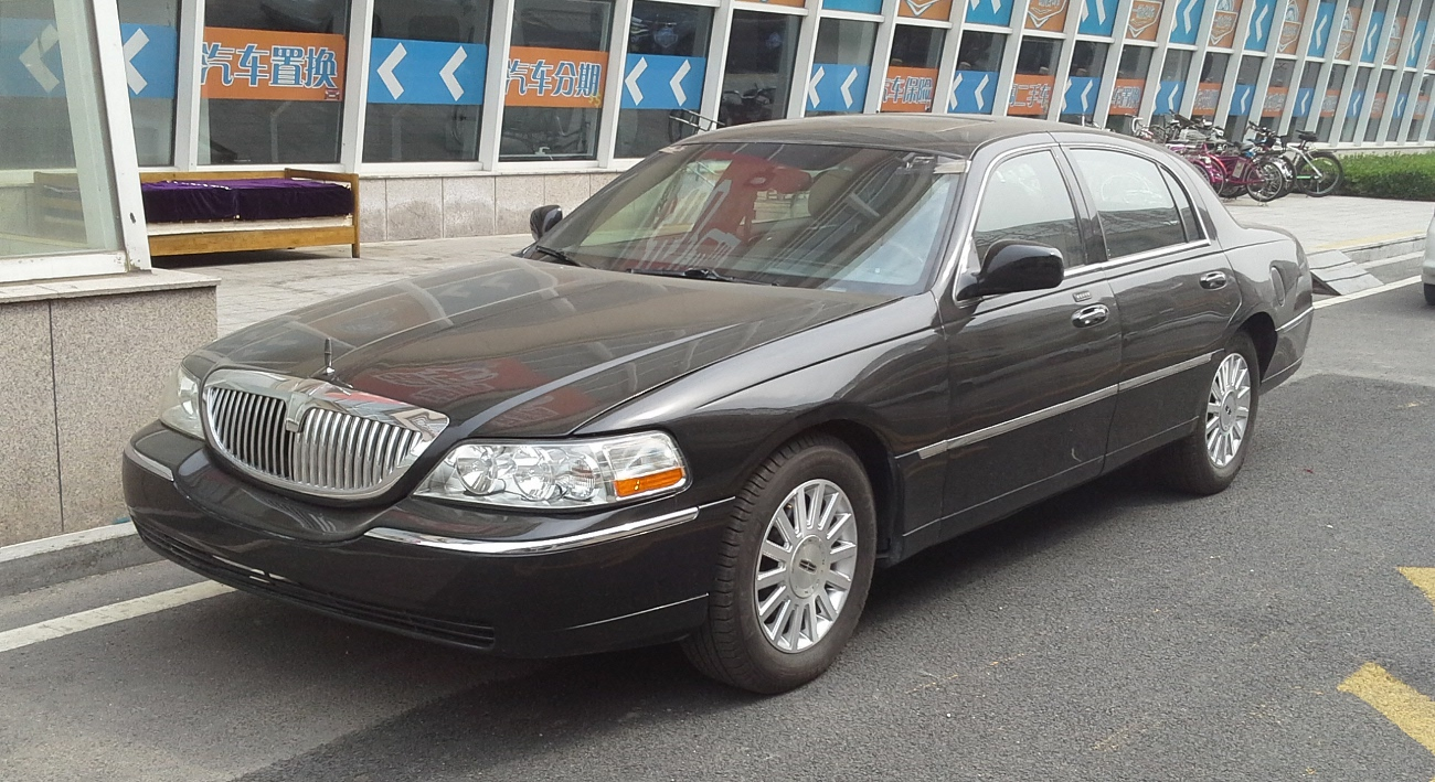 Lincoln Town Car III facelift photographed in Beijing, China.